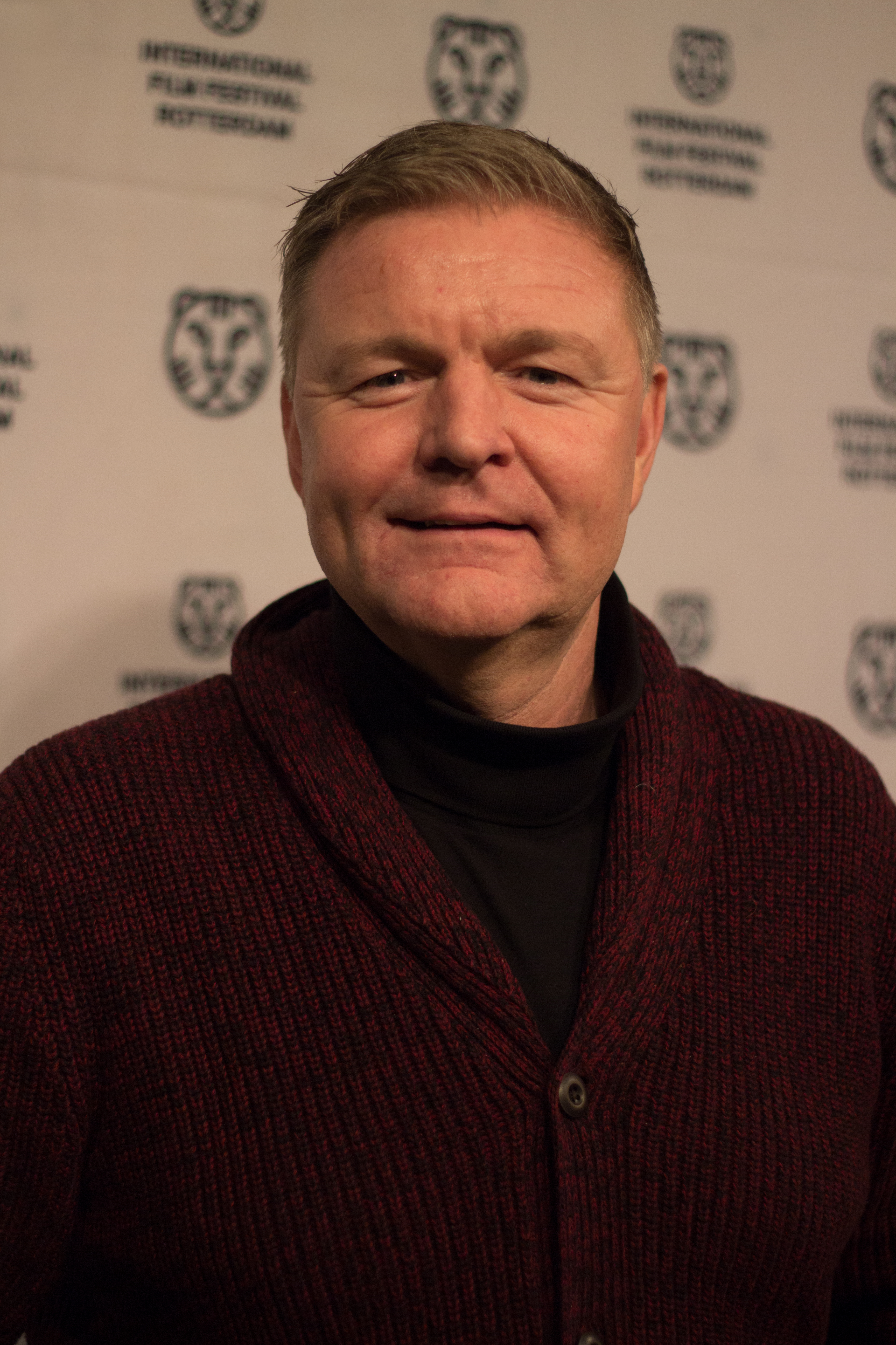 René Mioch at the IFFR 2016